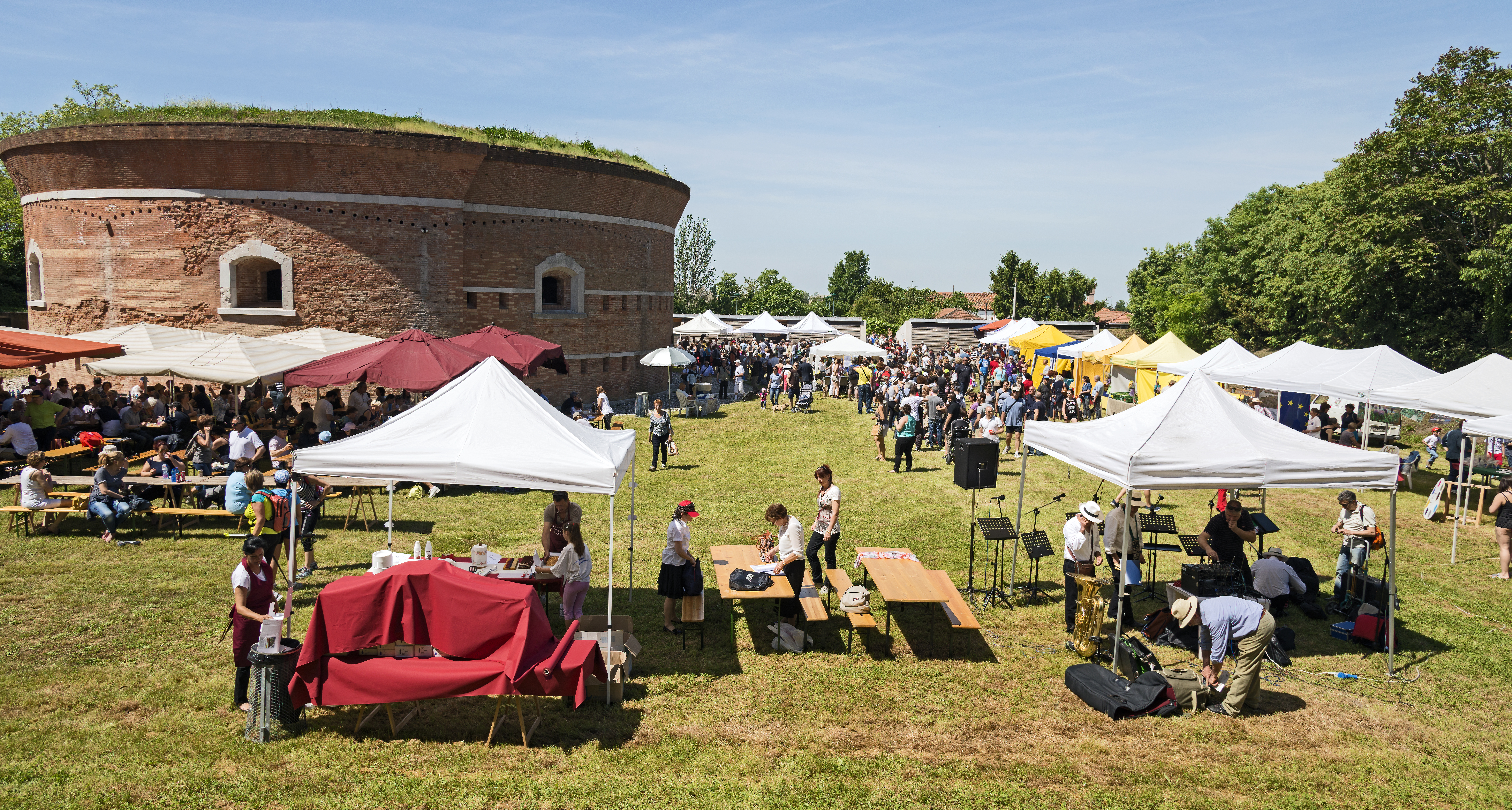 Annual Festival of purple artichoke, with demonstrations of different ways to cook artichokes, at the Maximilian Tower.